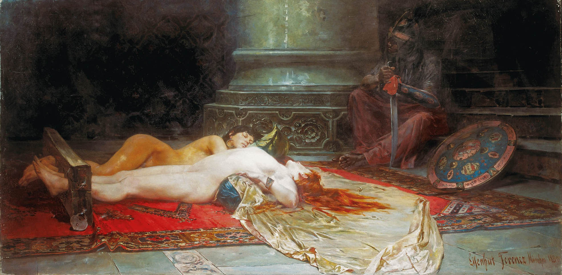 Before the Verdict